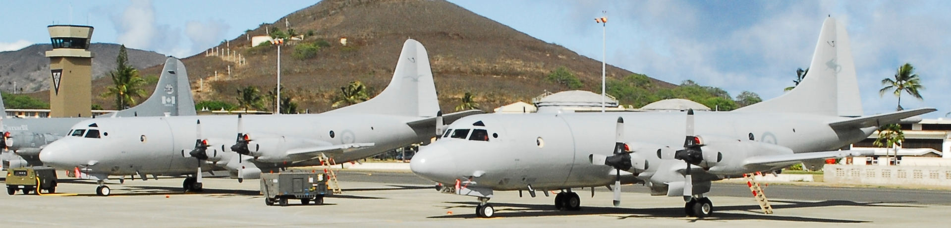 Two Australian AP-3C Orion aircraft at Marine Corps Air Station Kaneohe Bay during RIMPAC 2010